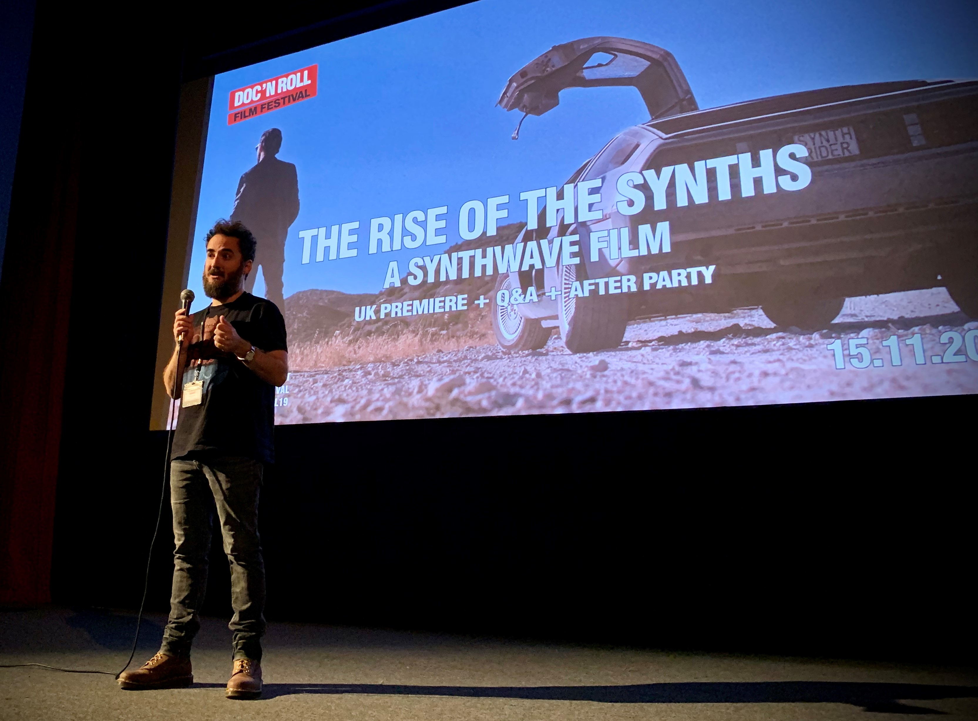 From Rise of the Synths UK Premiere, with Director Ivan Castell